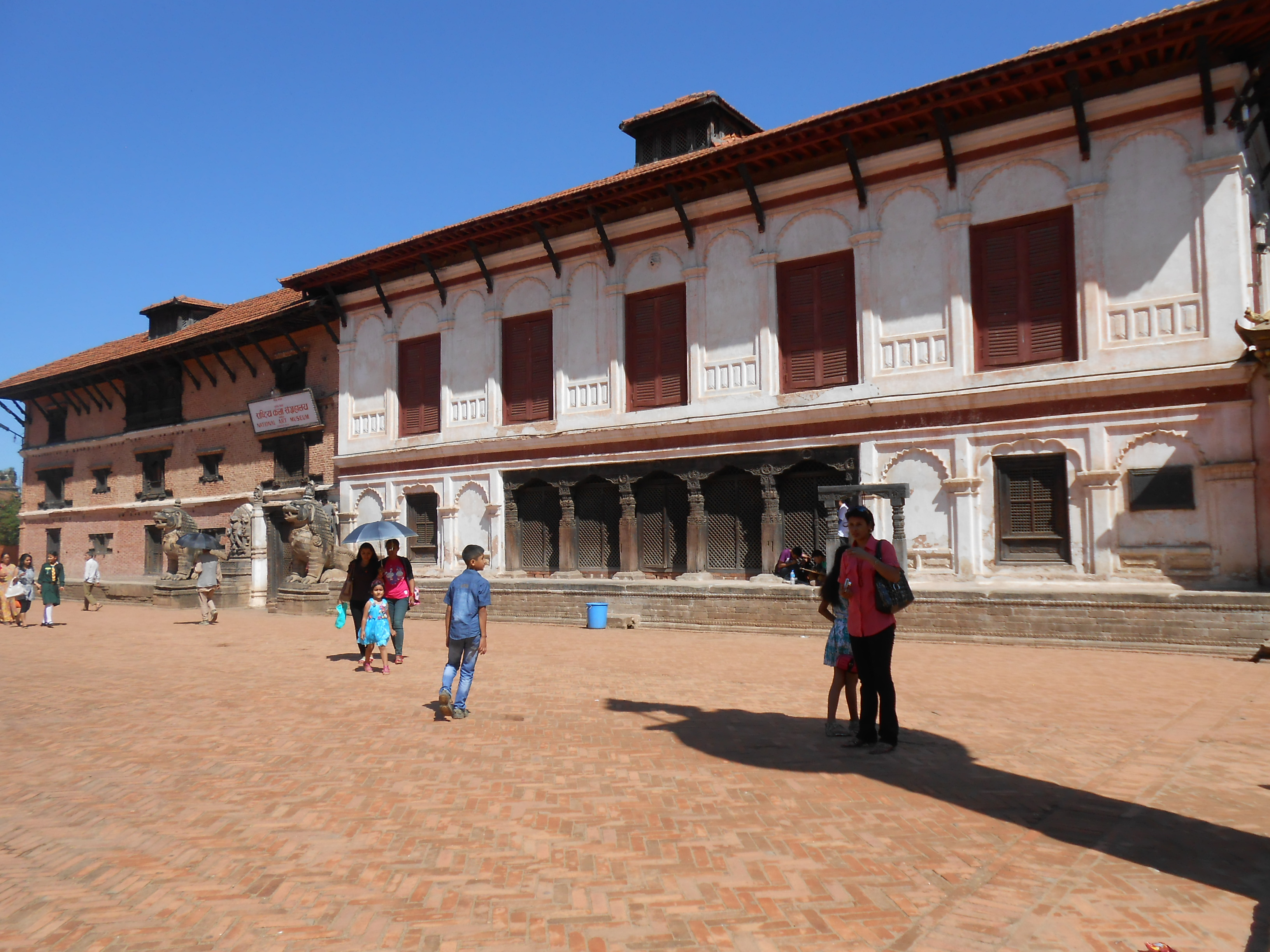 Bhaktapur Darbar